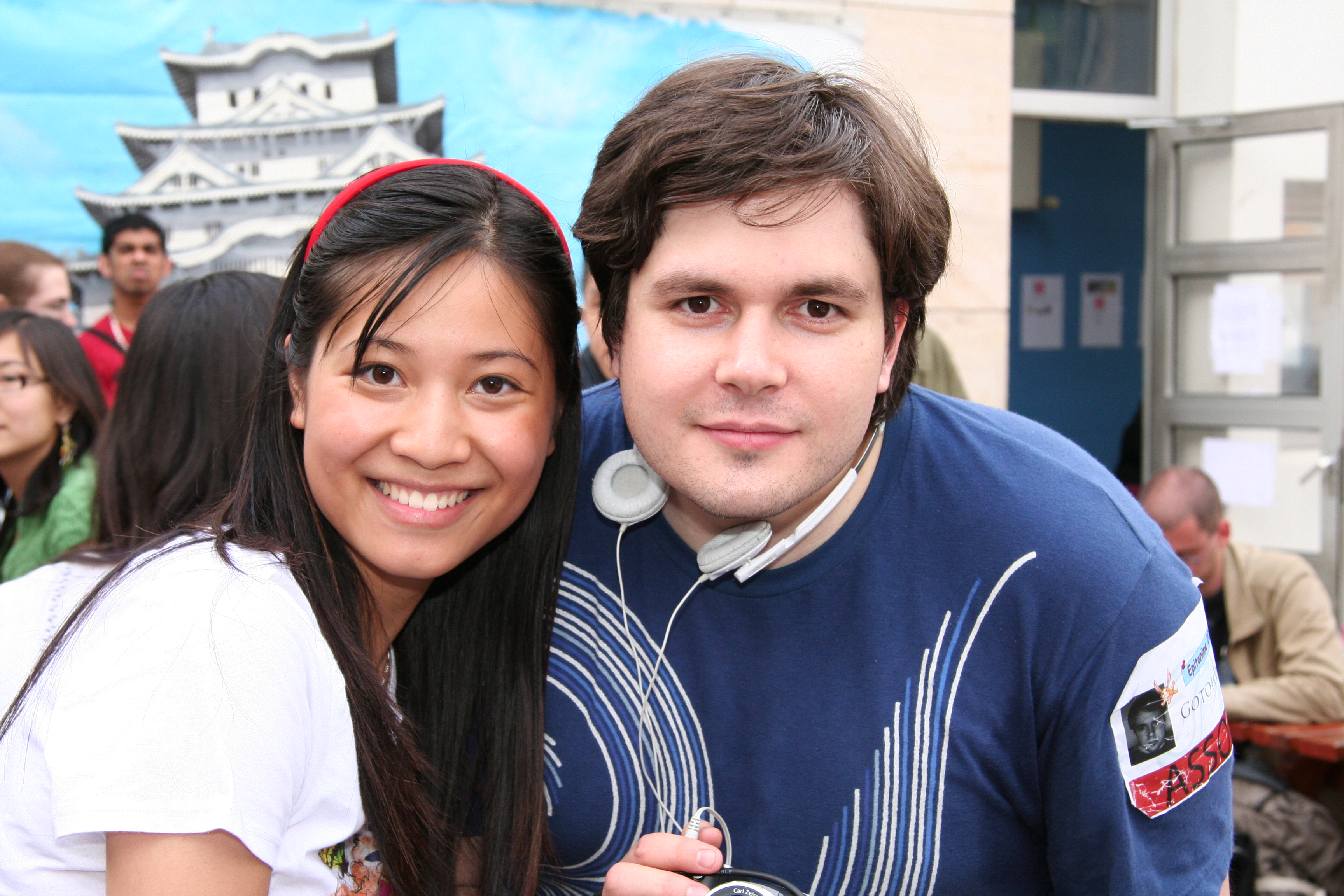 Geneviève Doang and Thomas Guitard at Epitanime 2008 (Paris, France).